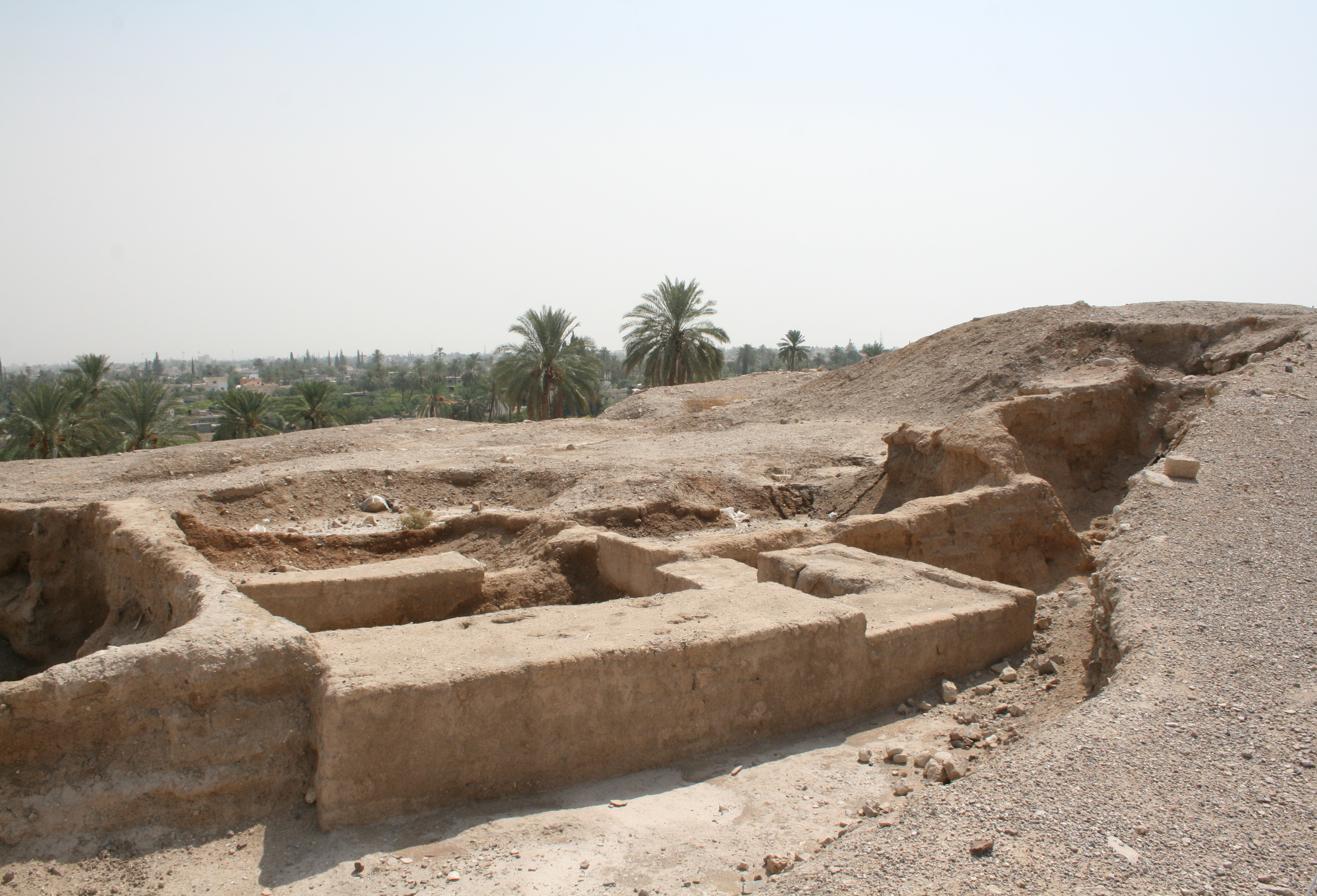 Tell es-Sultan, Jericho, Palestine